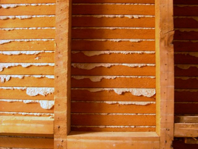 Laths seen from the back with plaster visible between them